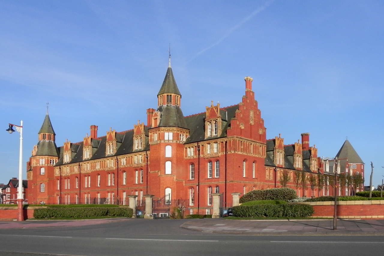 Photograph of the Promenade Hospital, Southport, Merseyside